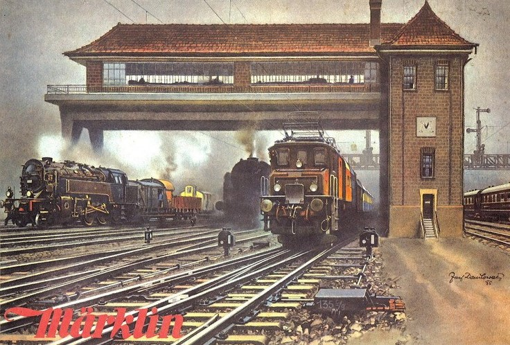 Cover of the Märklin Catalogue from 1932, designed by Josef Danilowatz (1877-1945)